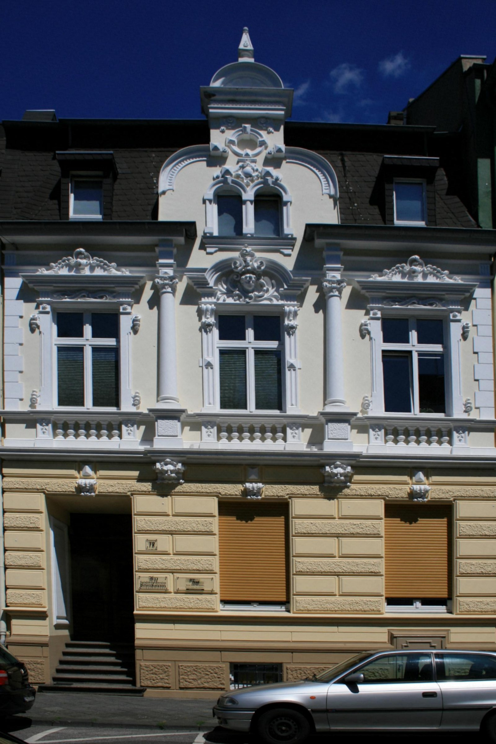 Cultural heritage monument No. H 075 in Mönchengladbach